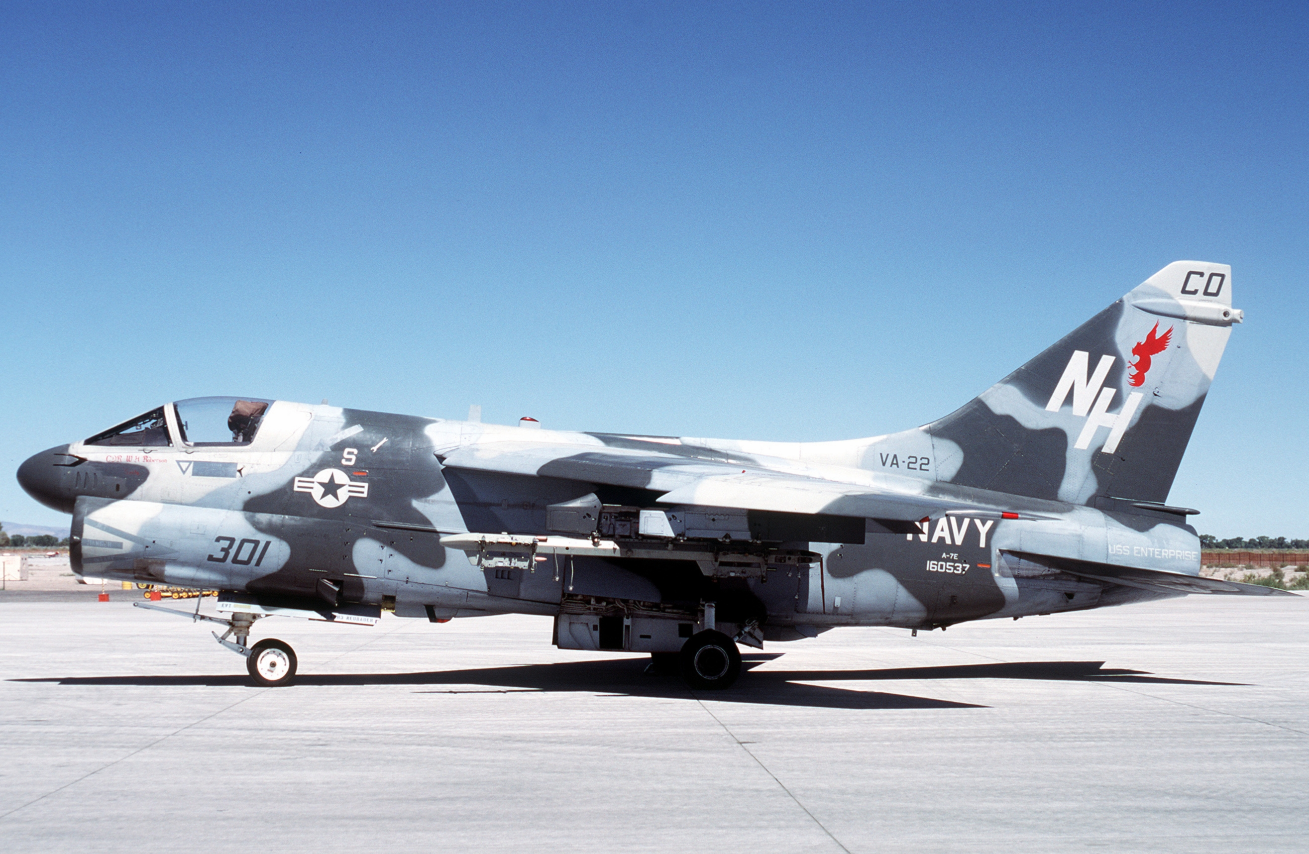 A U.S. Navy Ling-Temco-Vought A-7E Corsair II (BuNo 160537) from attack squadron VA-22 Fighting Redcocks at the Naval Air Station Fallon, Nevada (USA), on 17 August 1987.